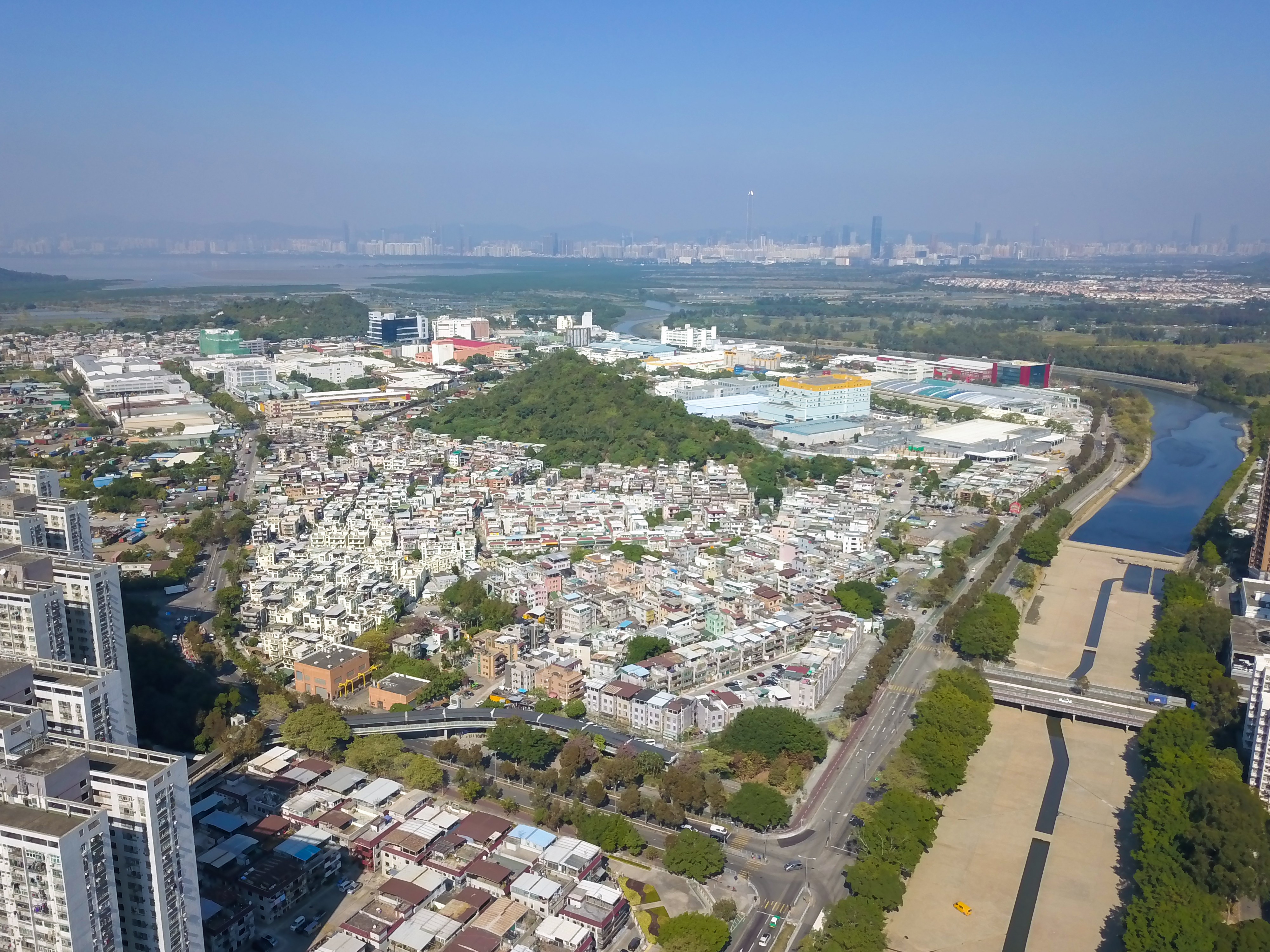 Existing village in Wang Chau